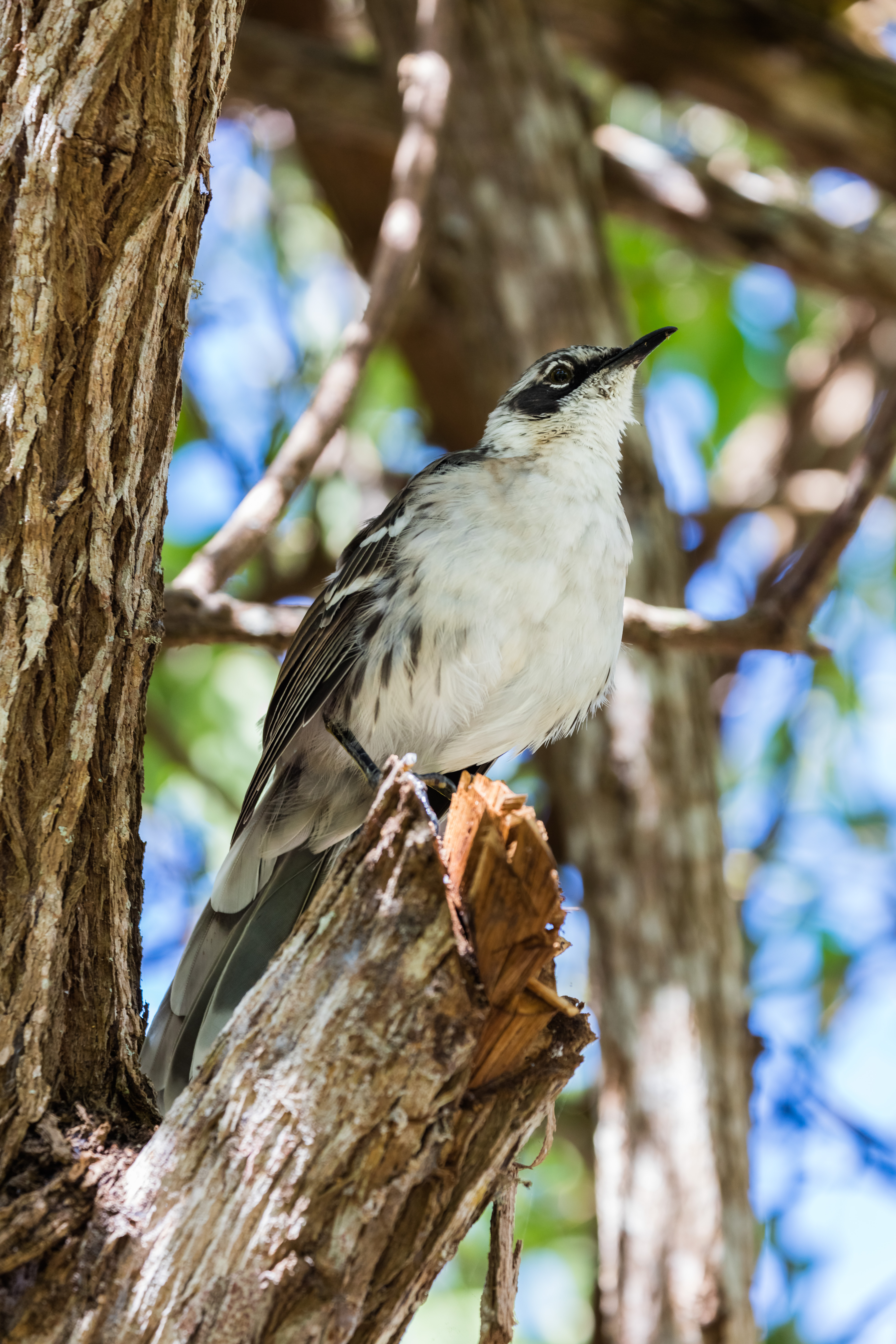 Galapagos mockingbird (Mimus parvulus), Santa Cruz island, Galapagos islands, Ecuador